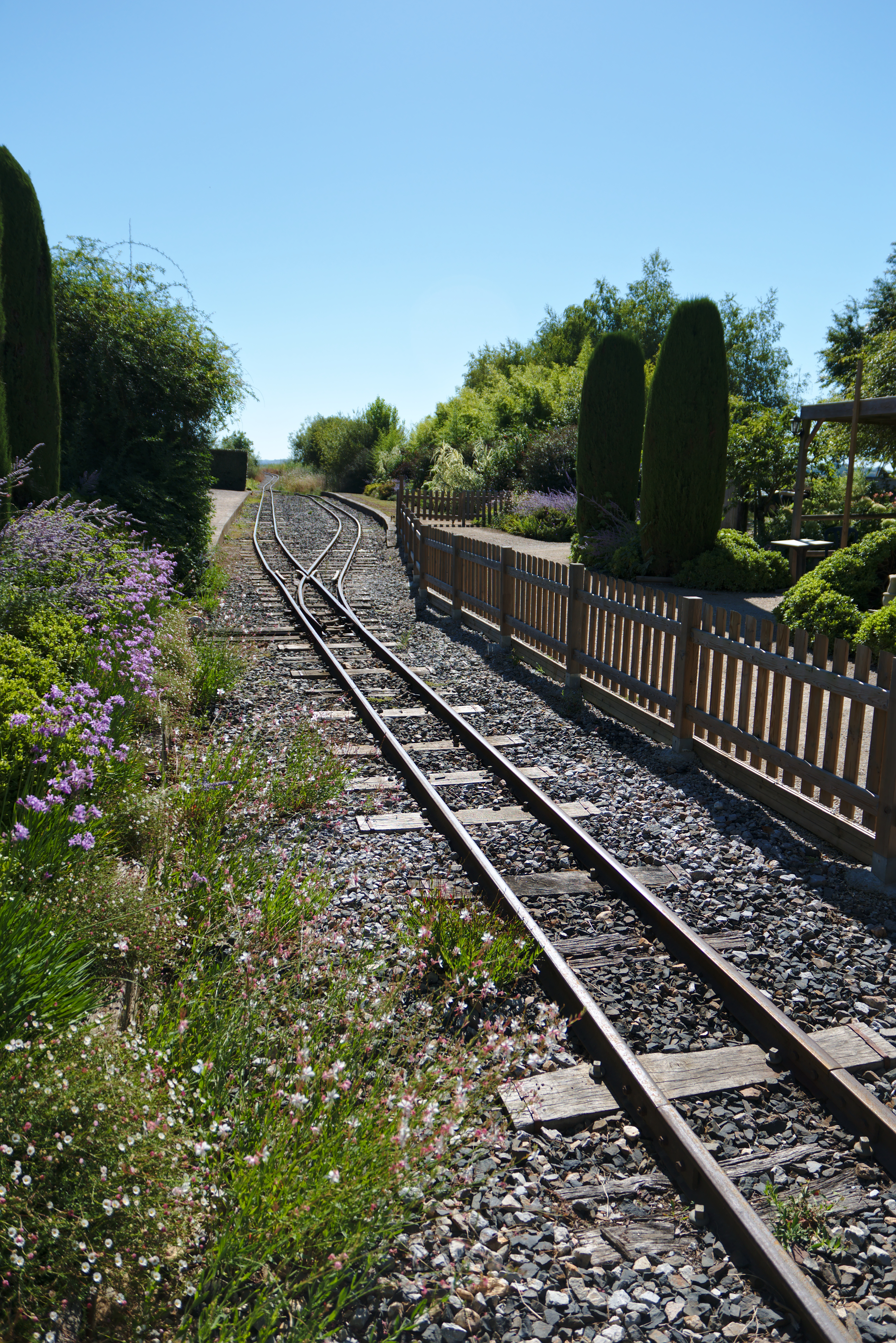 Terminus of the Chemin de Fer Touristique du Tarn at Jardins des Martels.